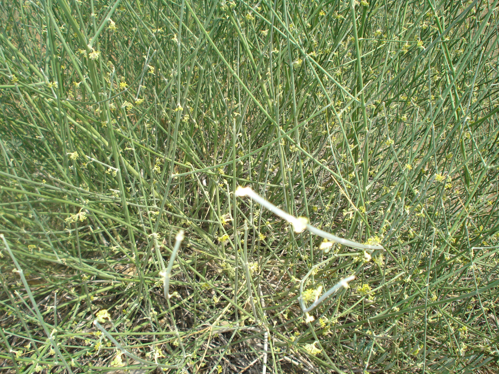 Leptadenia pyrotechnica (Khimp)